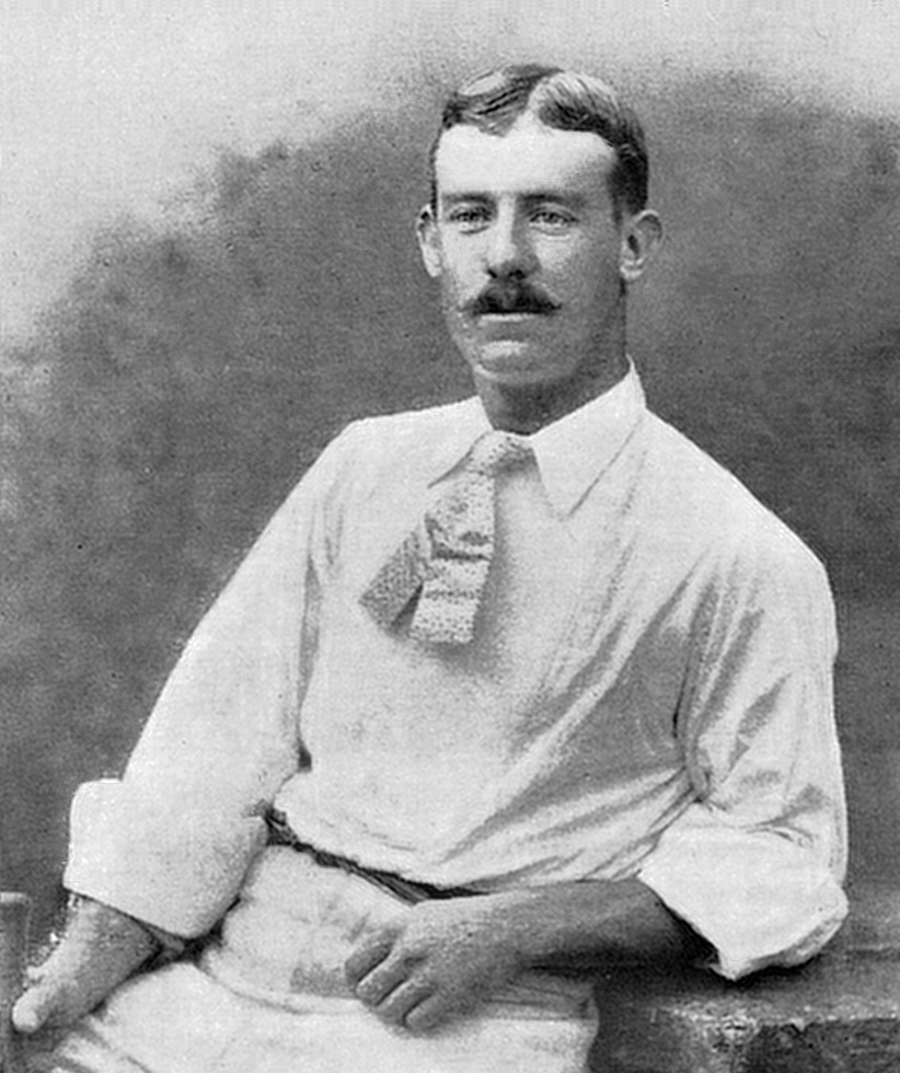 William Bates